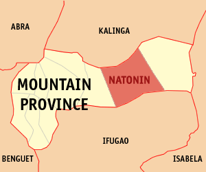 Map of Mountain Province showing the location of Natonin